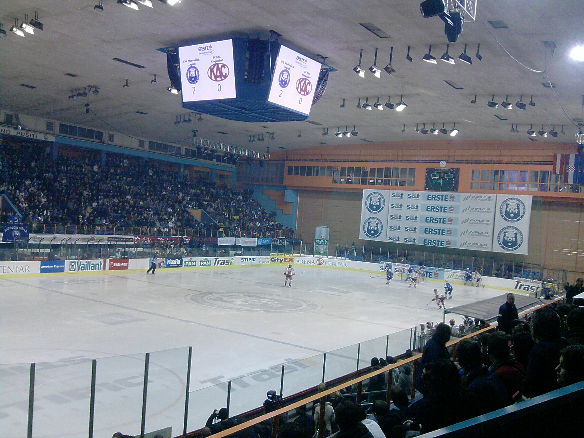 KHL Medveščak Zagreb - KAC 2010-01-15